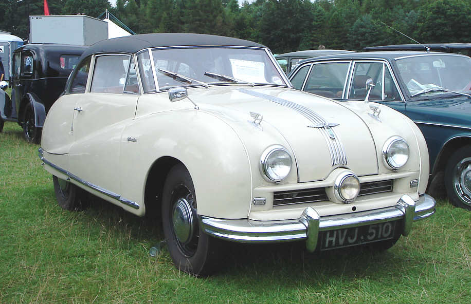 1951 Austin A90 Atlantic Sports Saloon Photographed by myself 20 August 2006, Tatton Park, Cheshire, UK